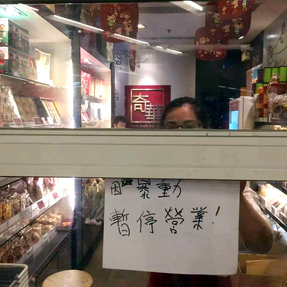 Kee Wah Bakery Shatin Station Notice